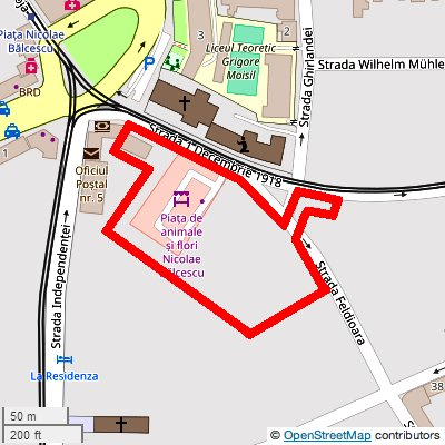 Map of heritage site "Ansamblul urban VI", Timișoara, Romania